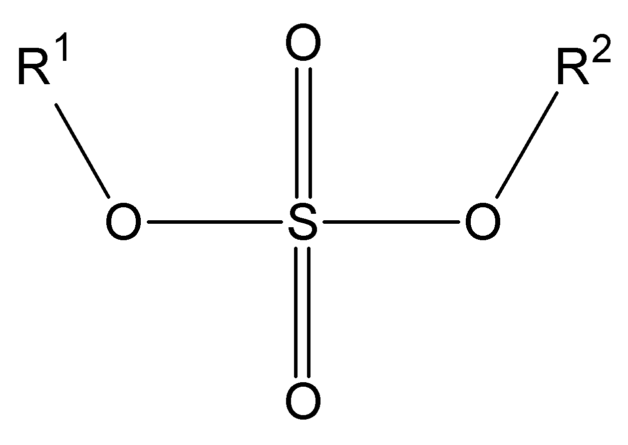 Comments High-resolution black/white .PNG made with ChemSketch and Photoshop — see WikiProject Chemistry - structure drawing for detailed instructions. Please drop me a note if you need the source file. Category:Chemical structures (Original text: Chemical structure of Organosulfate)